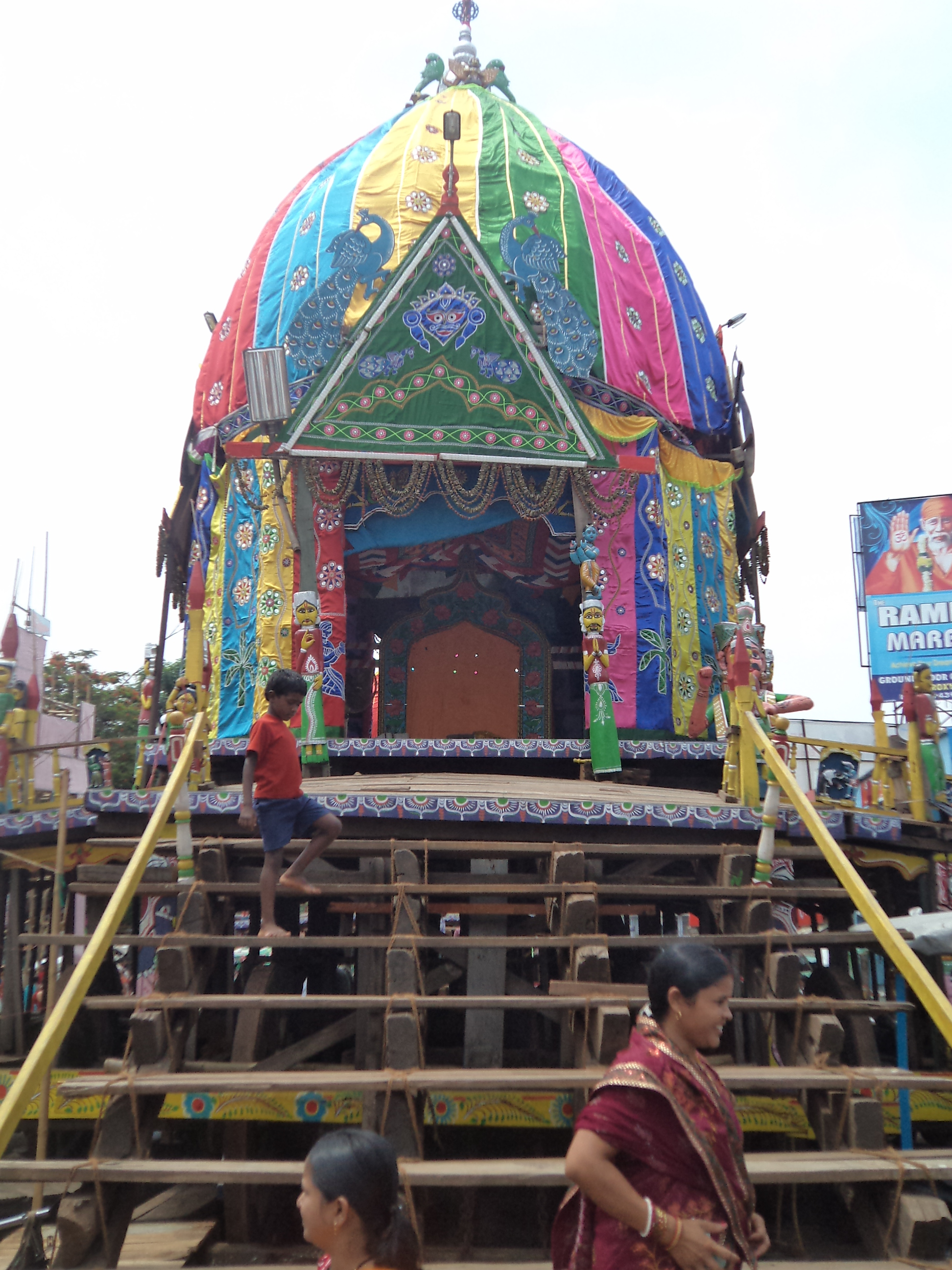 If you like it come Baripada. Join Car Festival